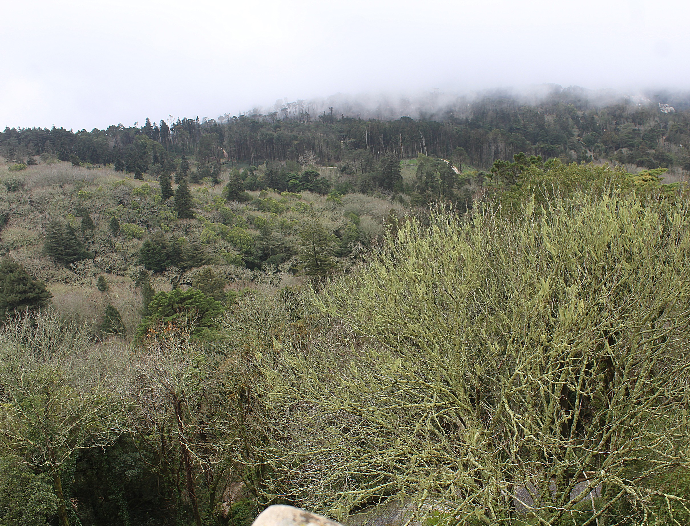 Sintra, Palácio Nacional da Pena, the Sintra mountains